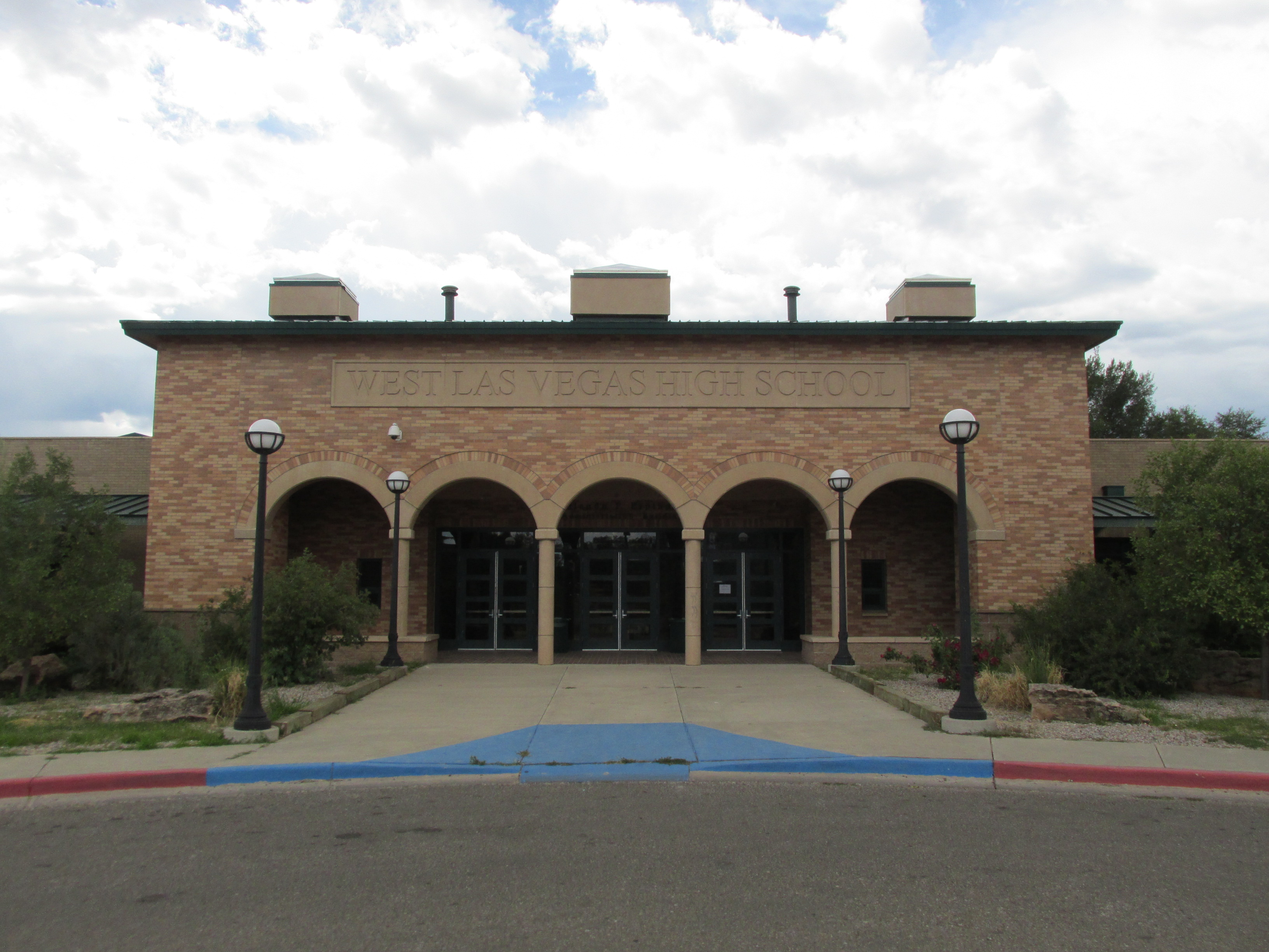 West Las Vegas High School, Las Vegas New Mexico - 2013